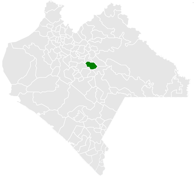 Map of the Municipalty of Huixtán in the State of Chiapas, México.